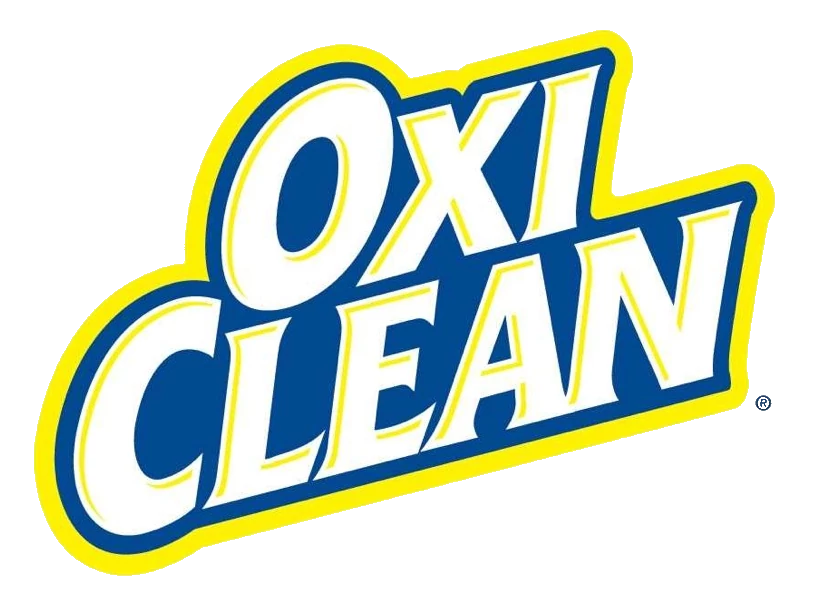 The logo of OxiClean, a United States-based household cleaner founded in 1999.